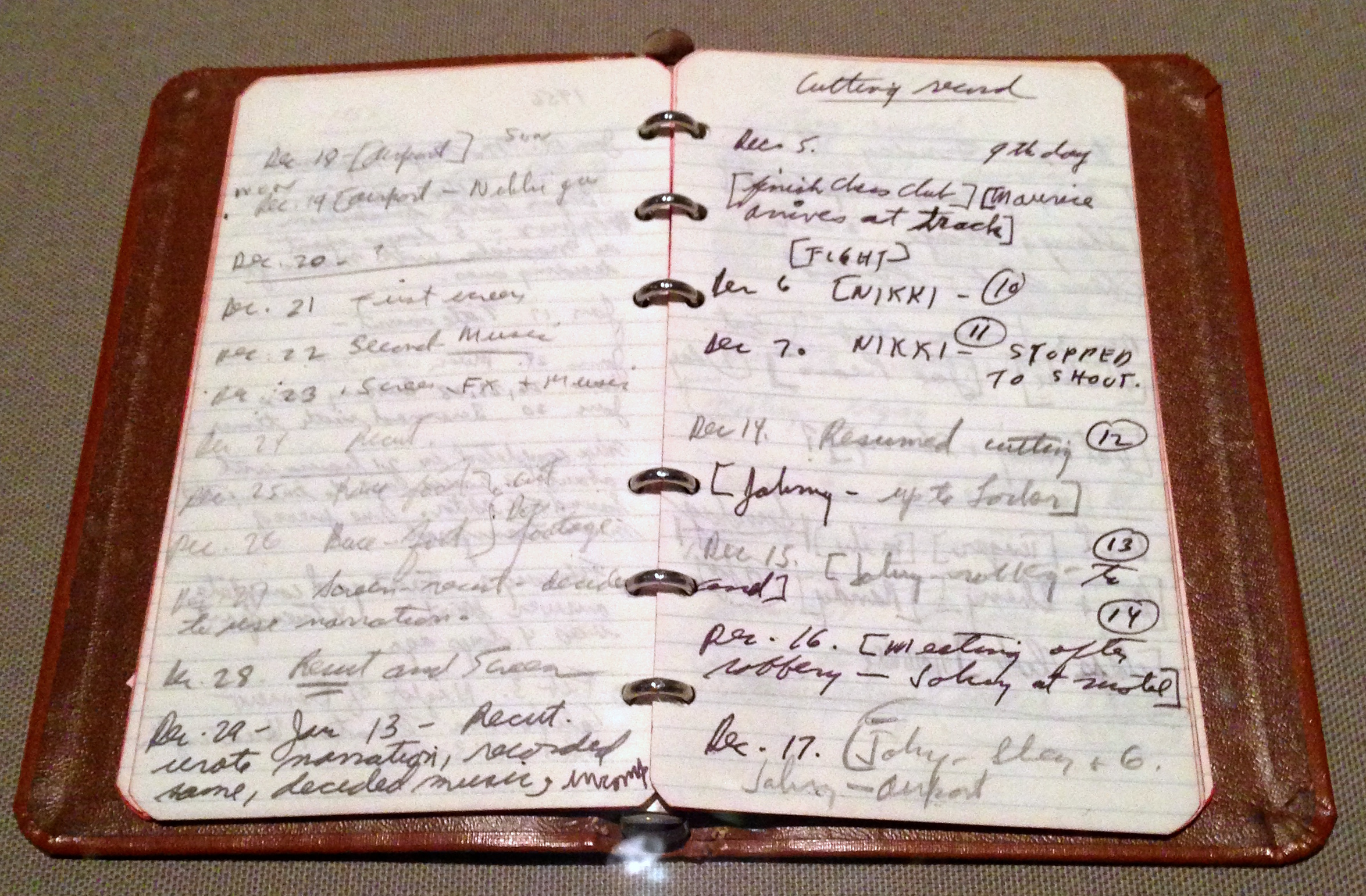 Stanley Kubrick exhibit at Los Angeles County Museum of Art.